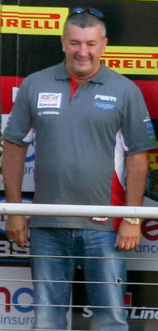 English motorcycle road race winning-team principal Paul Bird acknowledging the spectators' plaudits at Brands Hatch Showdown podium, end of BSB season 2014